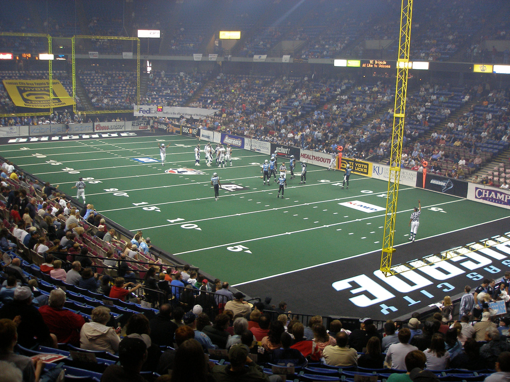 Arena football at Kansas City